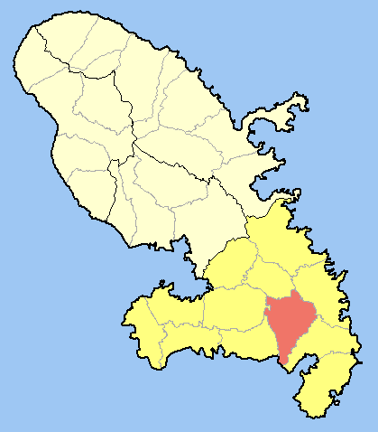 Location of Rivière-Pilote within Martinique